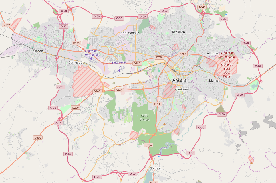 Location map of Anraka